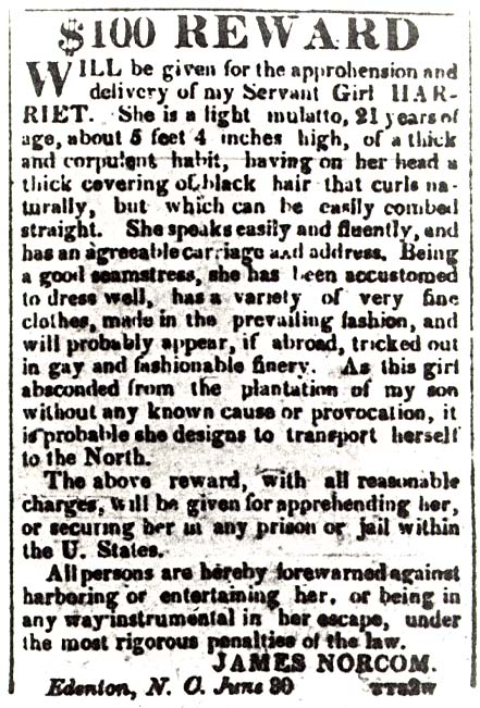 Harriet Jacobs Reward